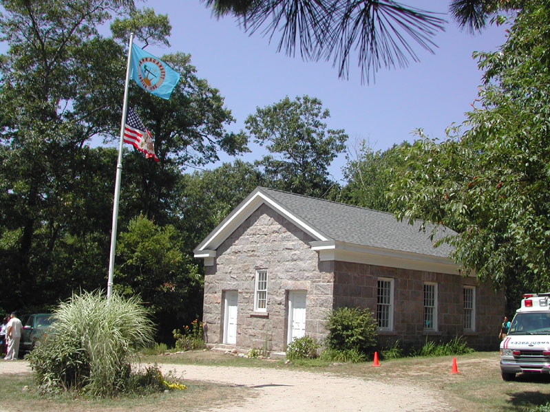 My pic of the Narragansett Indian Church in Charlestown, Rhode Island.